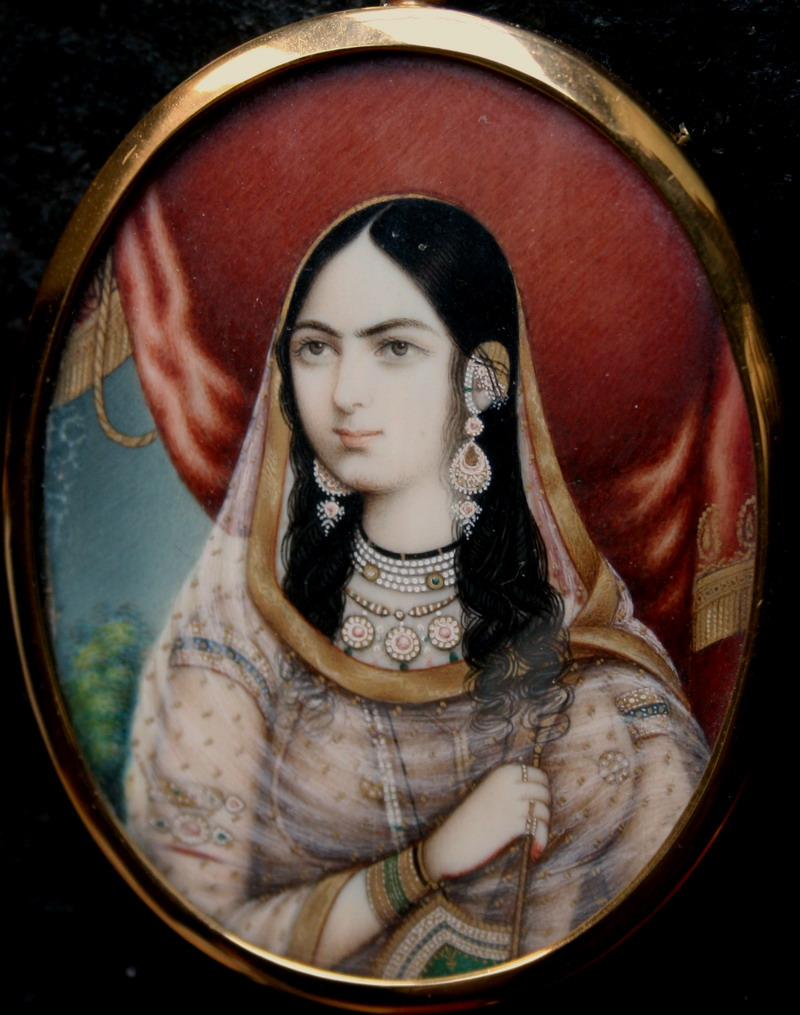 Posthumous portrait of Mumtaz Mahal, wife of Mughal Emperor Shah Jahan (1592 - 1666).